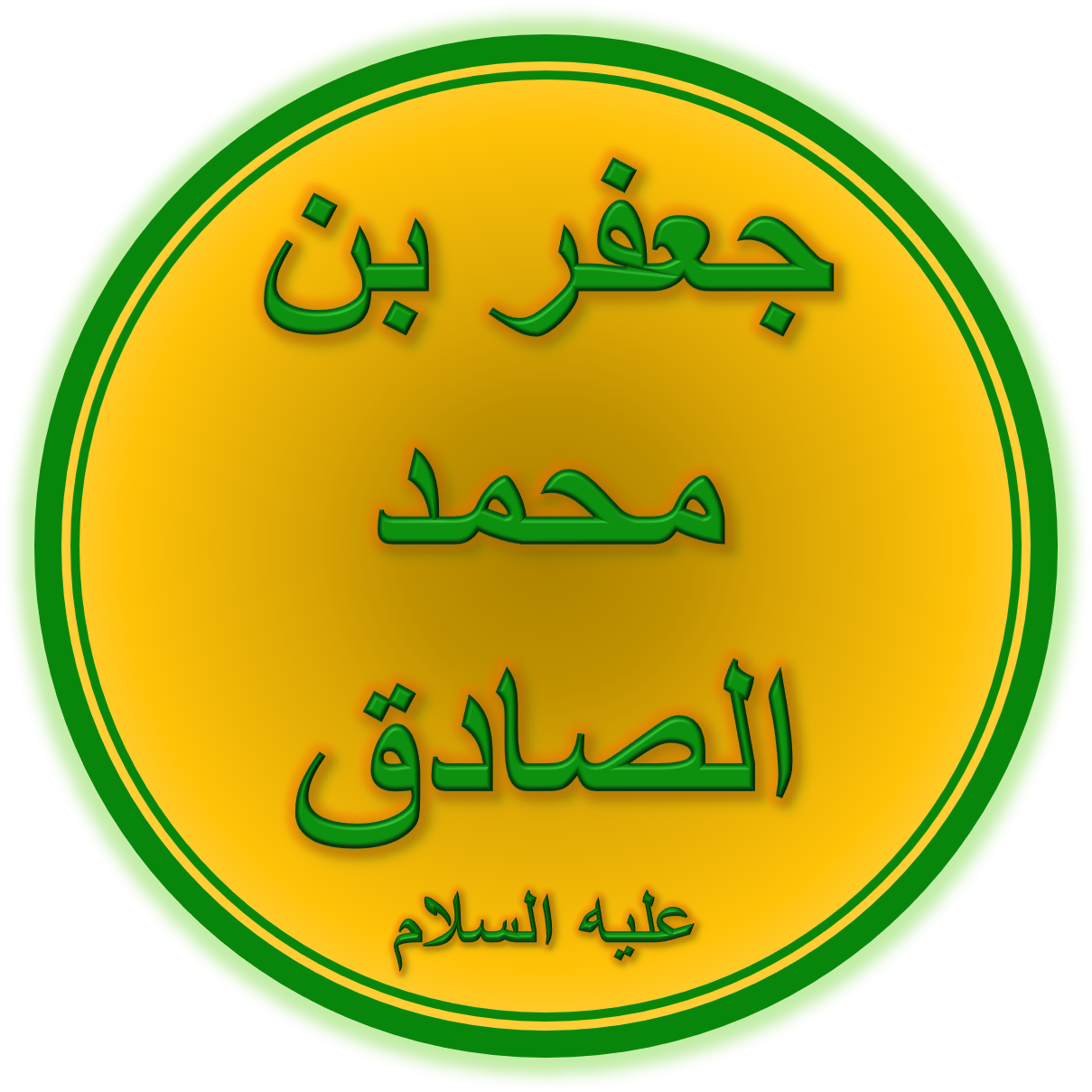 Arabic text with the name and a title of Jafar ibn Muhammad as-Sadiq